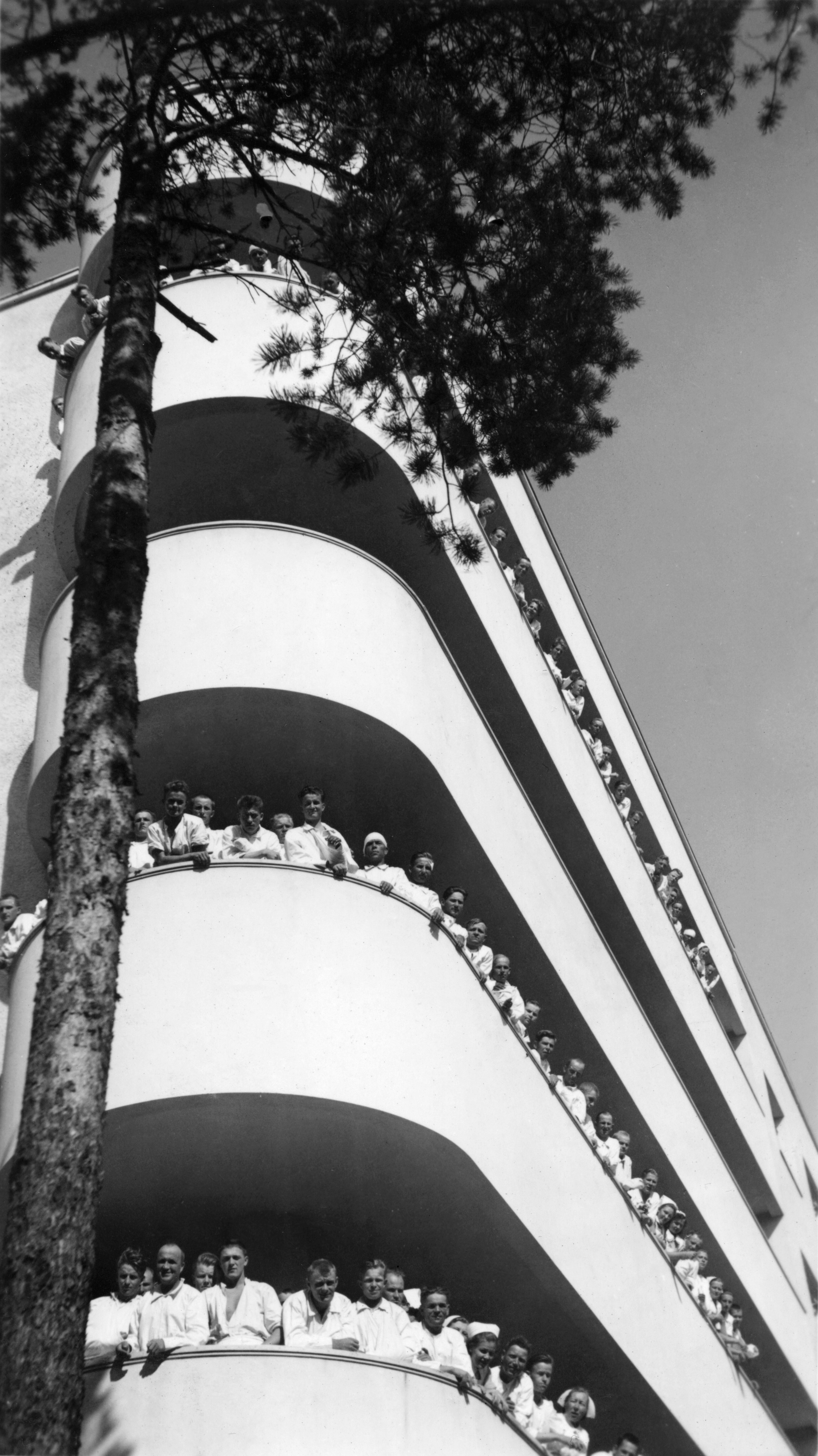 The military hospital was located on the premises of Tampere Lung Disease Hospital (Kauppi Hospital). The functionalist building was completed in the autumn of 1939.